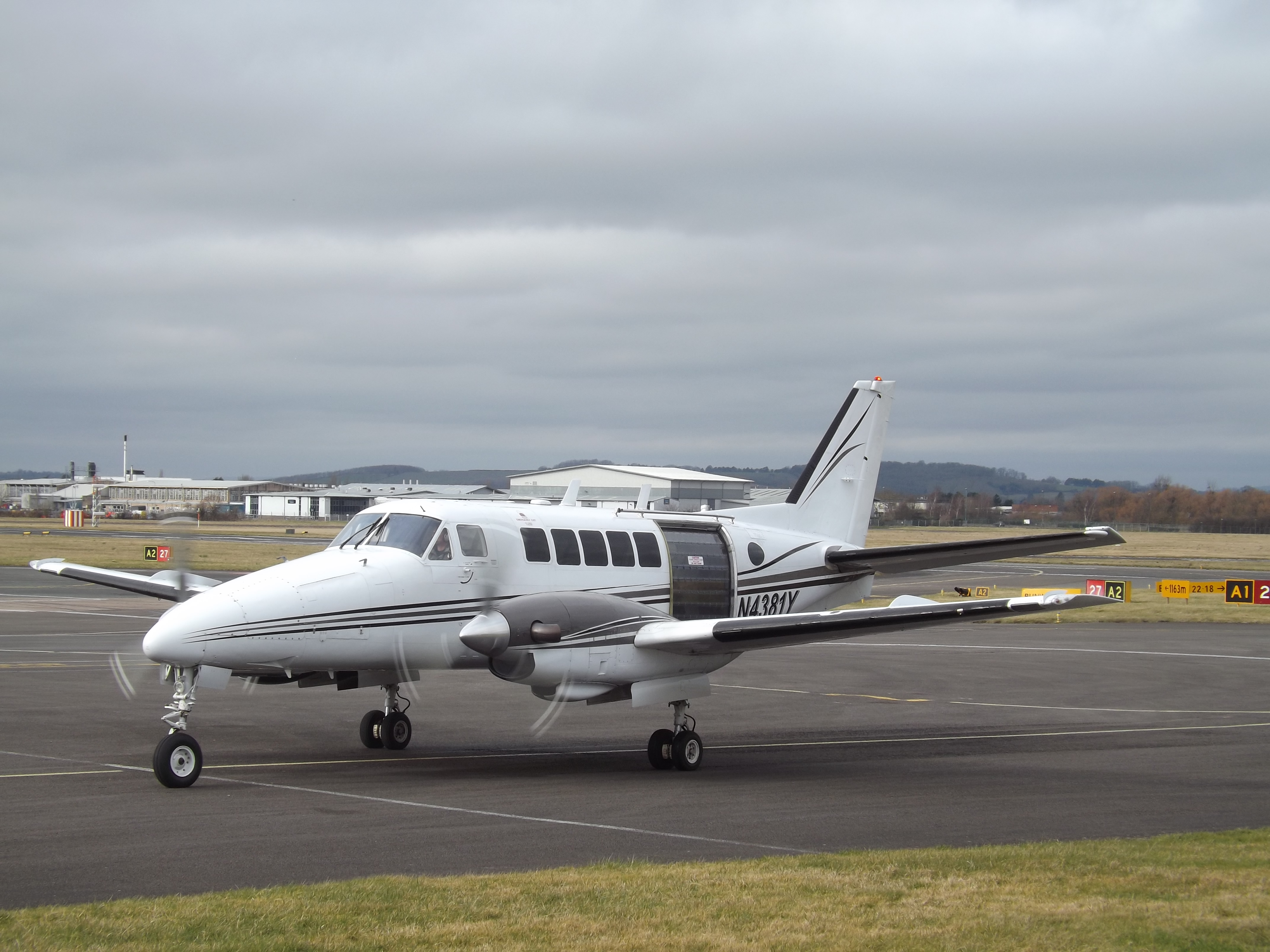 At Gloucestershire Airport.